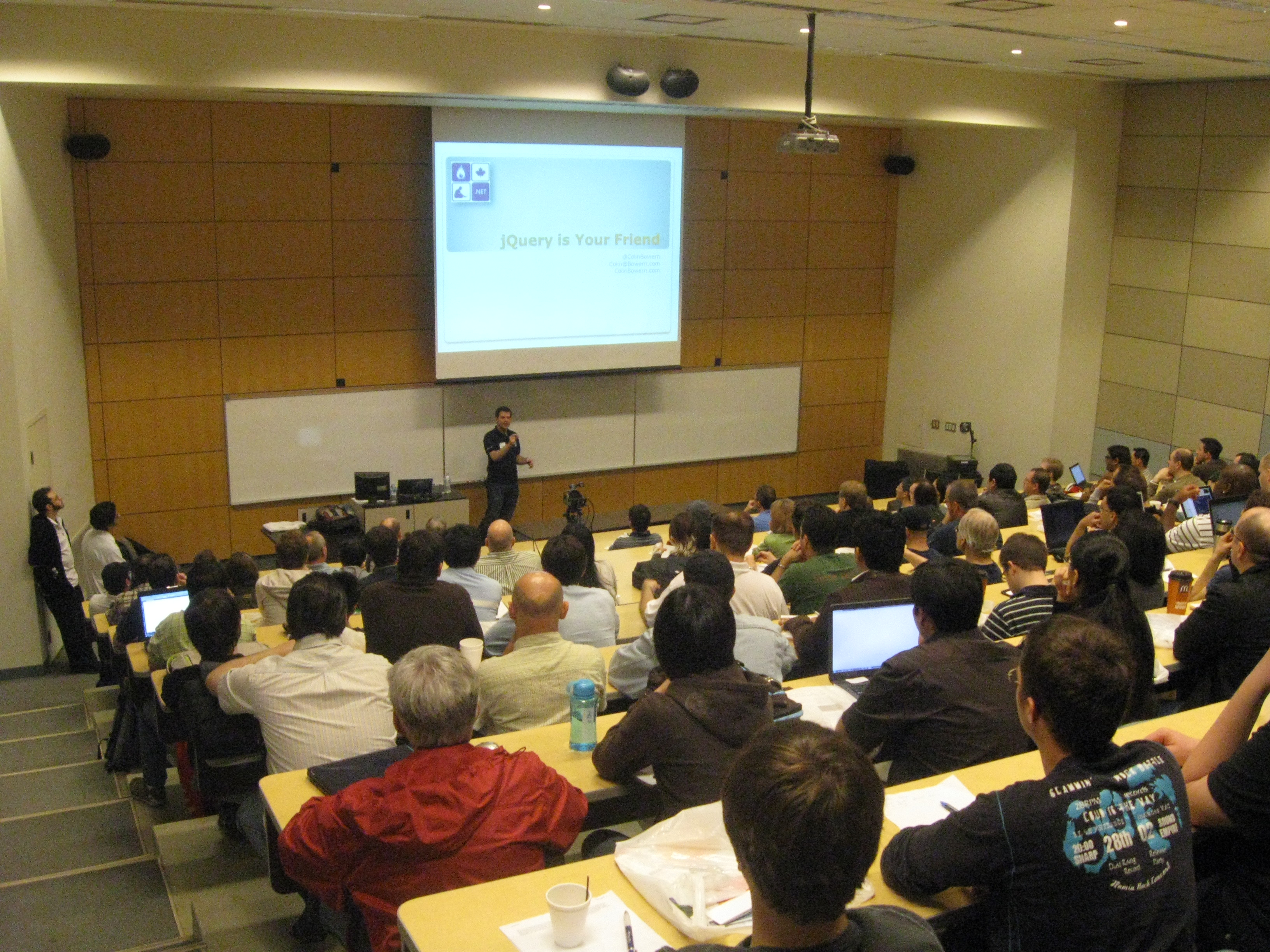 "jQuery is Your Friend" by Colin Bowern.